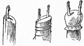 Cutout from image:Greffe rameau.jpg, original image contains french text, now abandoned.